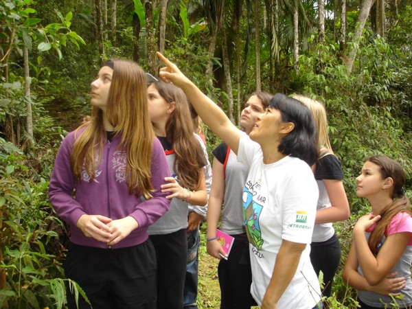 Environmental education for Atlantic Rain Forest conservation in Santa Catarina State, BRAZIL